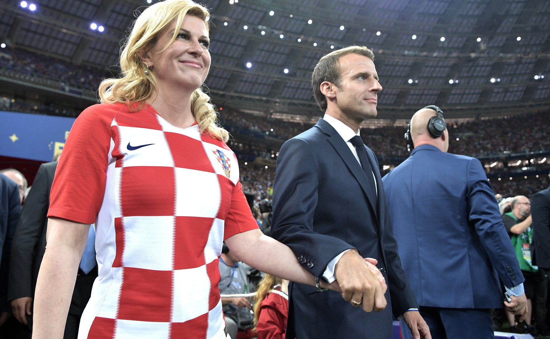 Kolinda Grabar-Kitarović and Emmanuel Macron prepare to award the first and second places in the final of the 2018 Russian Football Cup